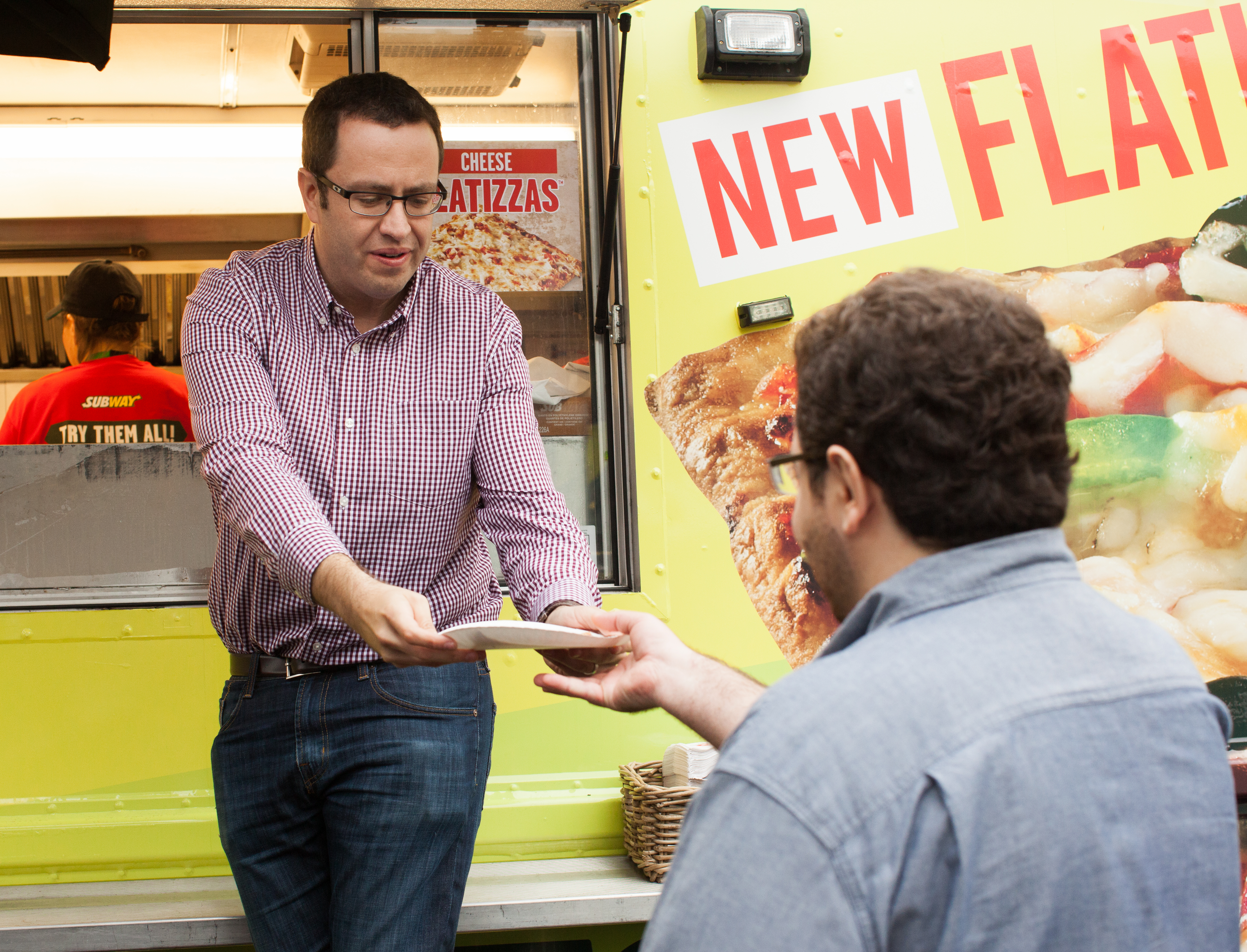 Jared Fogle Subway SXSW (399 of 601).jpg